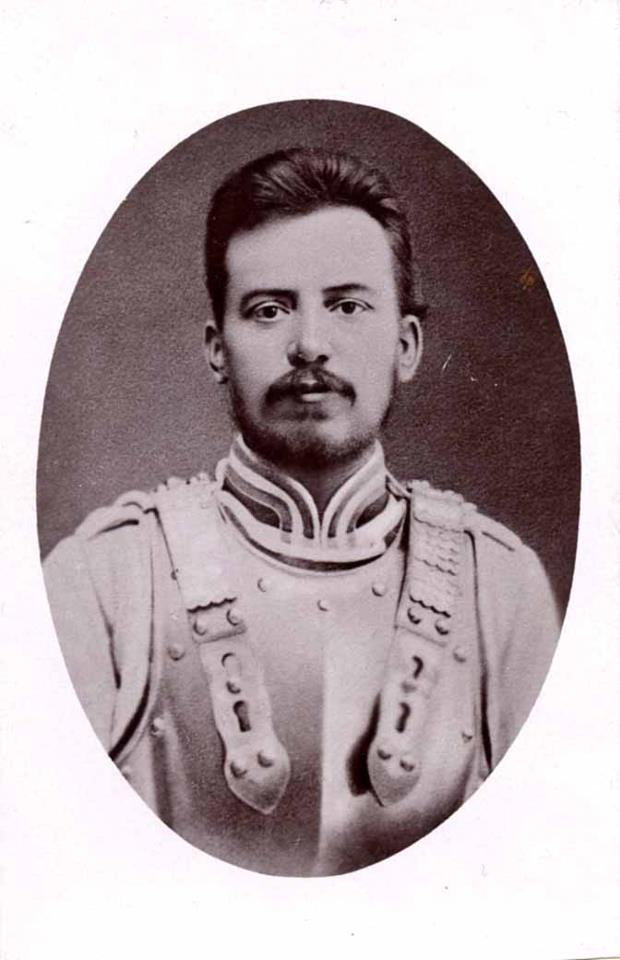 Mainländer in the military